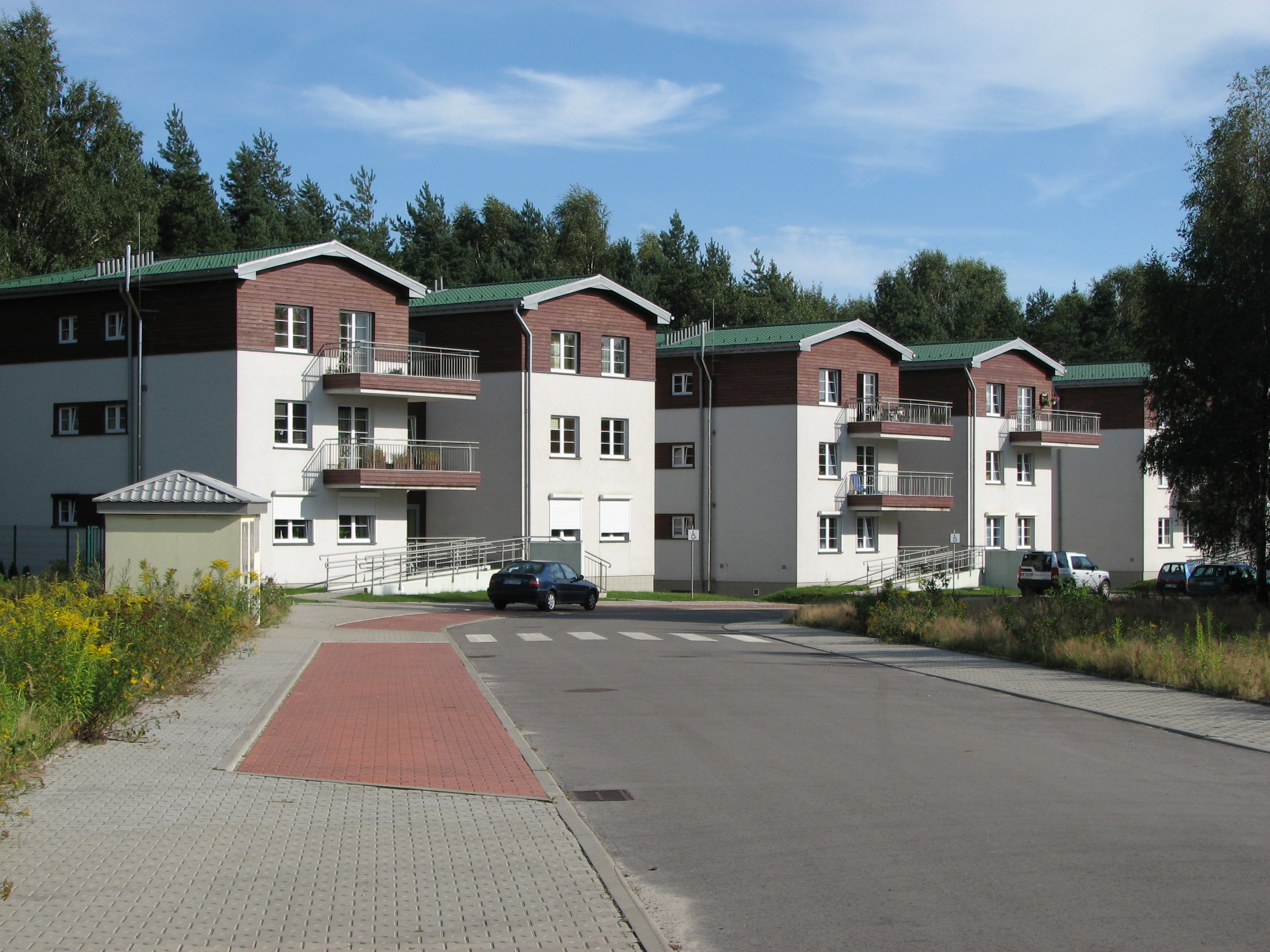 Panewniki's Forests in Katowice, Poland